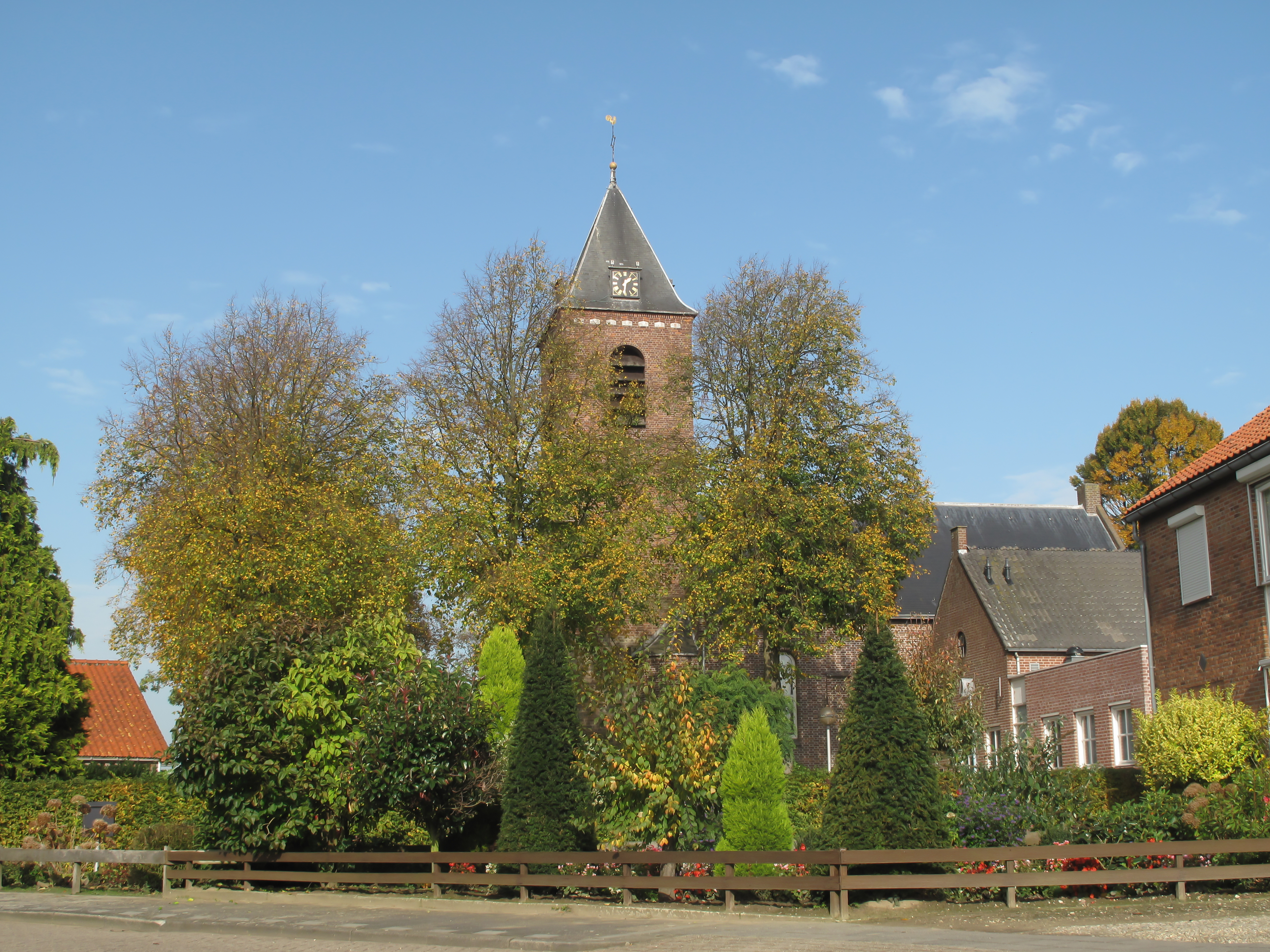 Genderen, reformed church in the street